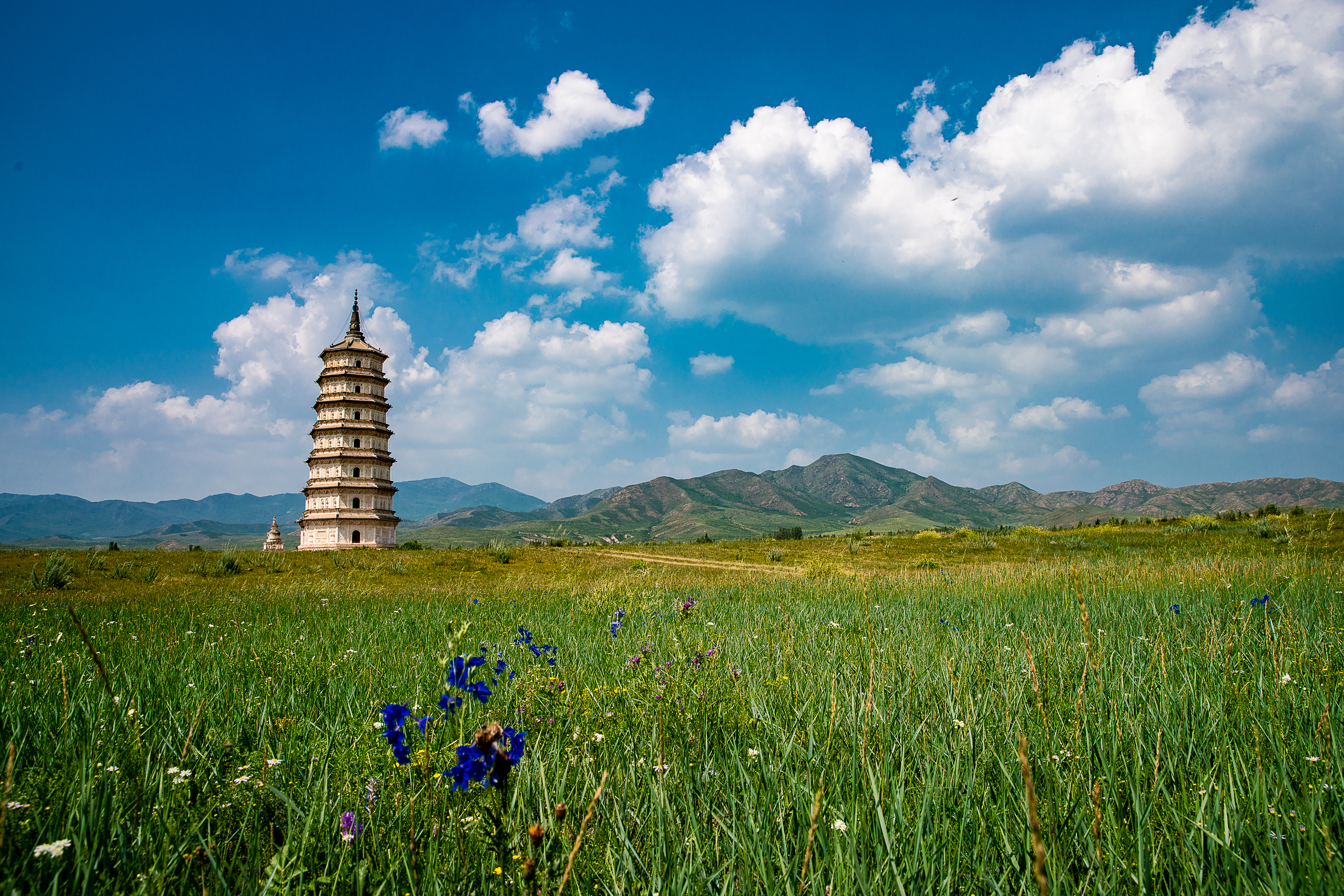 View of the Qinzhou White Pagoda from the east. 中文（中国大陆）: 内蒙古庆州白塔